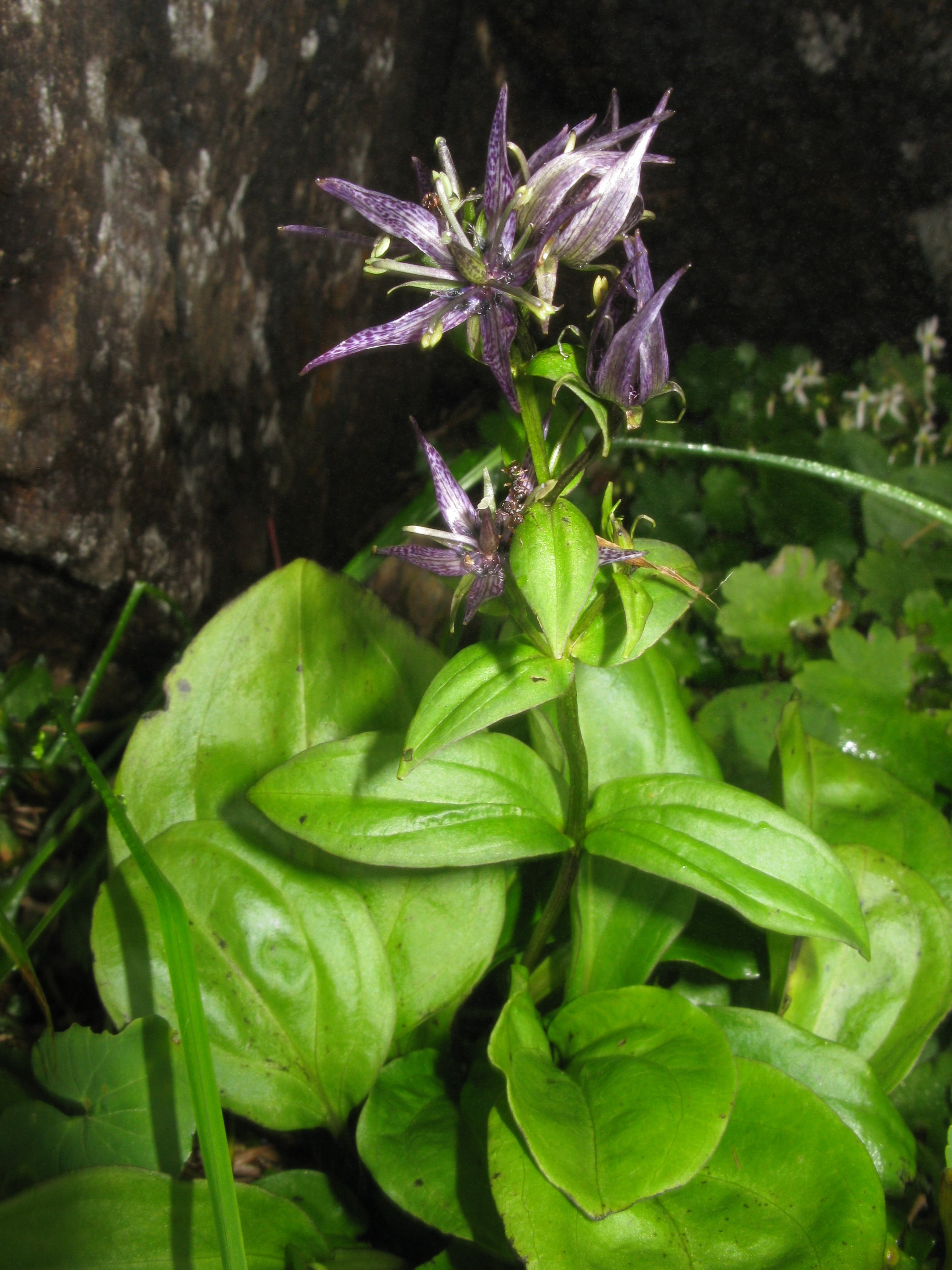 Swertia perennis subsp. cuspidata, Mount Hayachine, Iwate pref., Japan